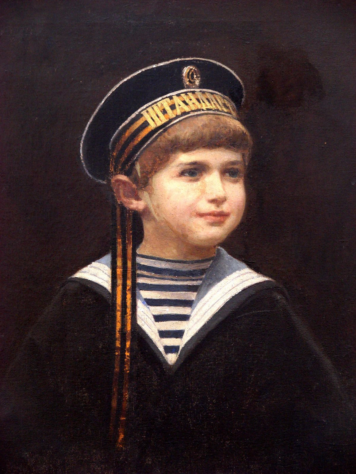 Painting of Alexei Nikolaievich of Russia in a sailor suit.